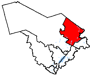 Based on maps by User:Earl Andrew